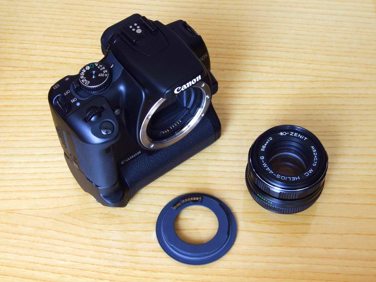 Canon EOS 400D body with a Zenit Helios 58 f2.0 lens and Canon-M42 electronic adapter ring.